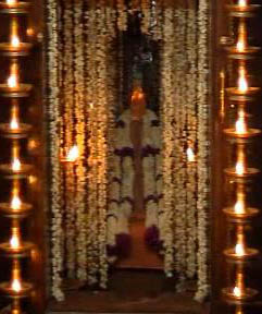 I took this photo graph.